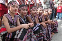 Young dancers in Alor, Indonesia participating in an event staged for the Sail Indonesia participants in 2004.